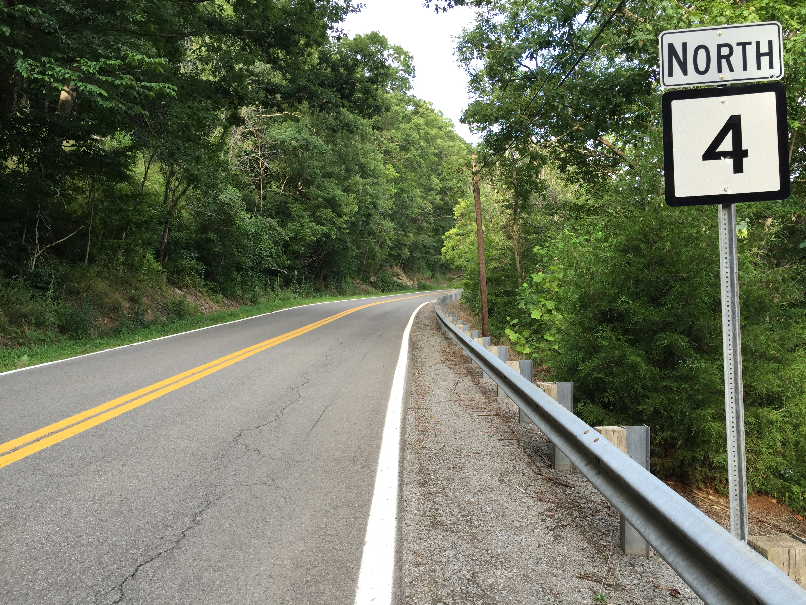 View north along West Virginia State Route 4 (Elk River Road) at Duck Road (Braxton County Route 4/20) in Duck, Braxton County, West Virginia